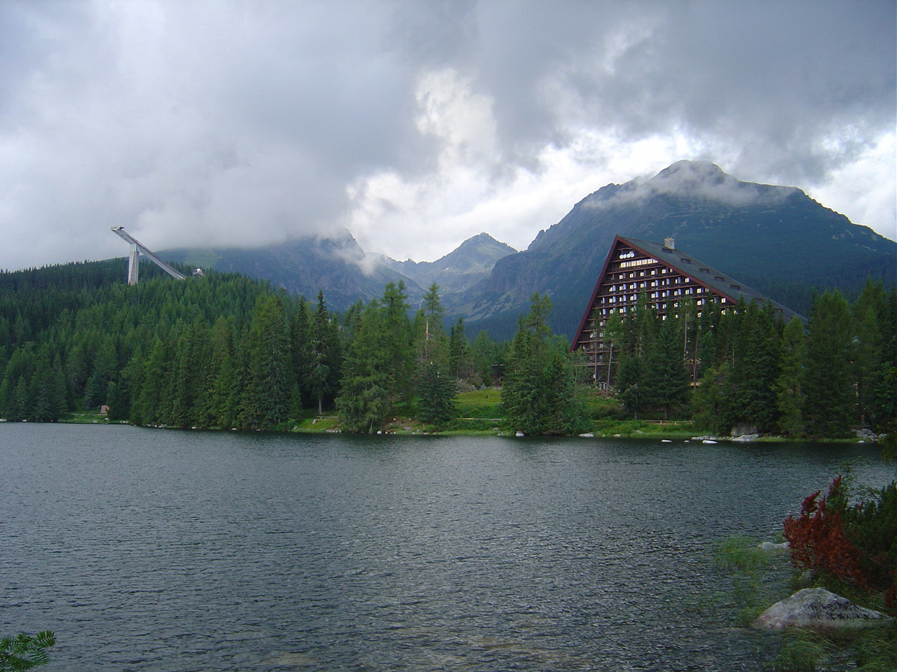 Picture was taken by Kristian Slimak (August 6, 2005).